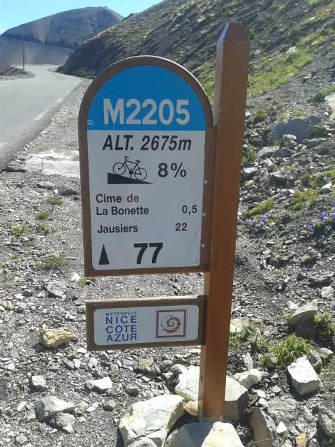 Mountain pass cycling milestone at the Cime de la Bonette in France ascending from St Etienne de Tinee